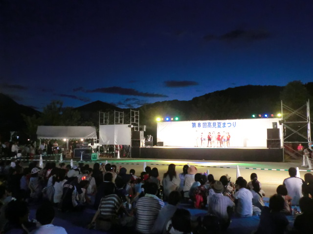 Takami Natsuyasumi (Takami summer festival) held in Takami,Kitakyushu city,Japan.